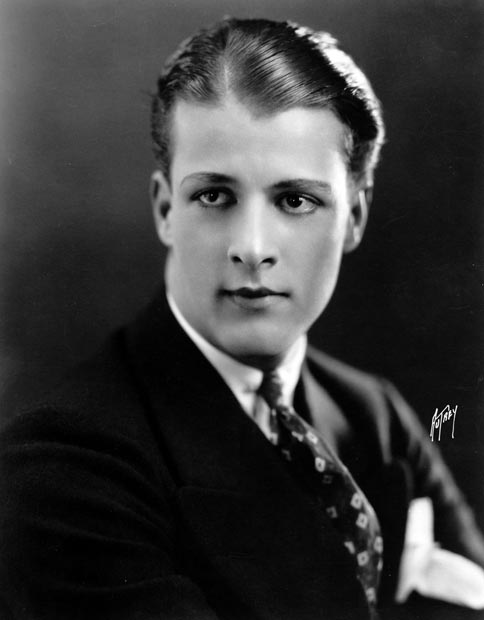 Argentine-born actor Barry Norton - publicity still